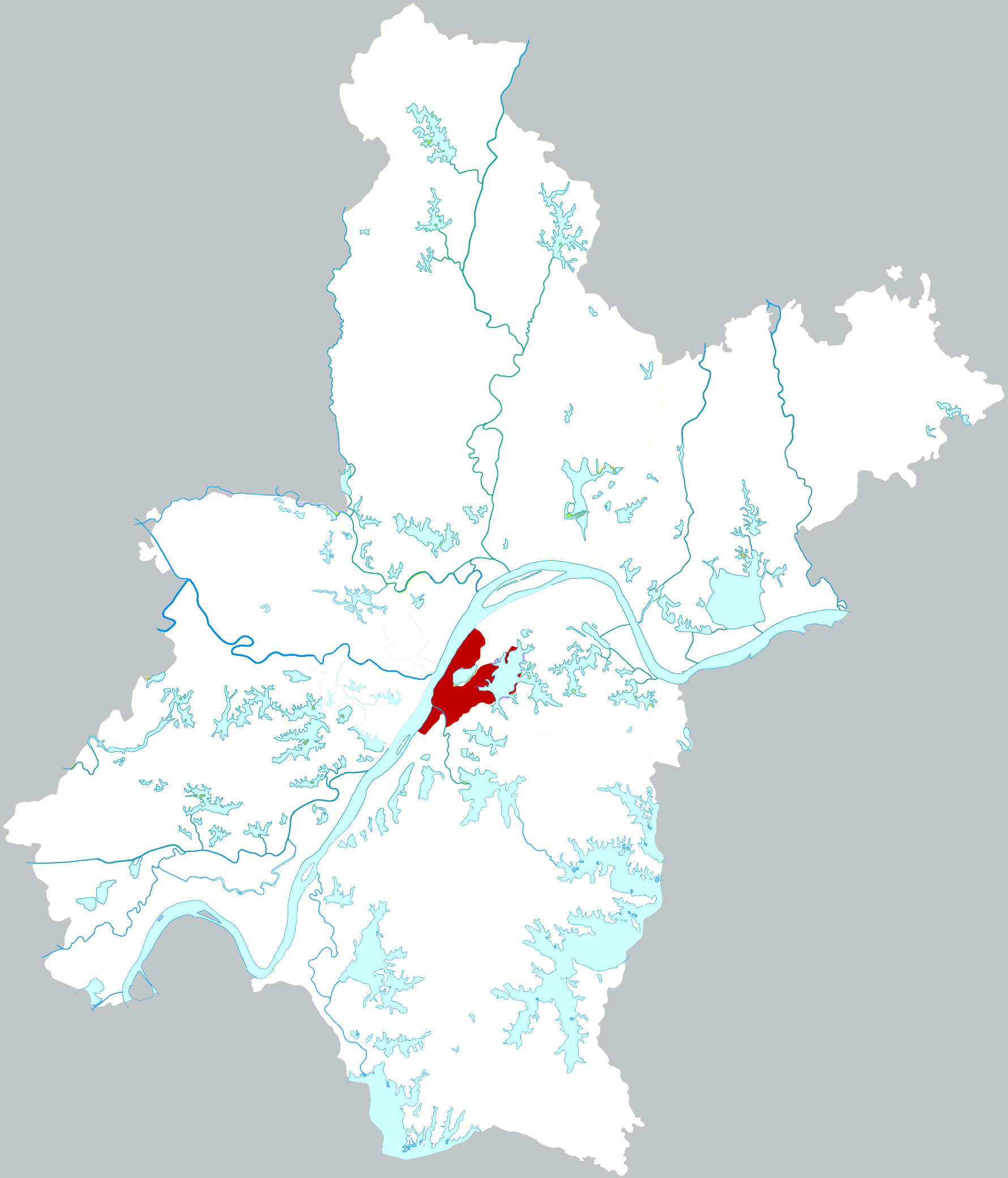 Location of Wuchang district in Wuhan city, China